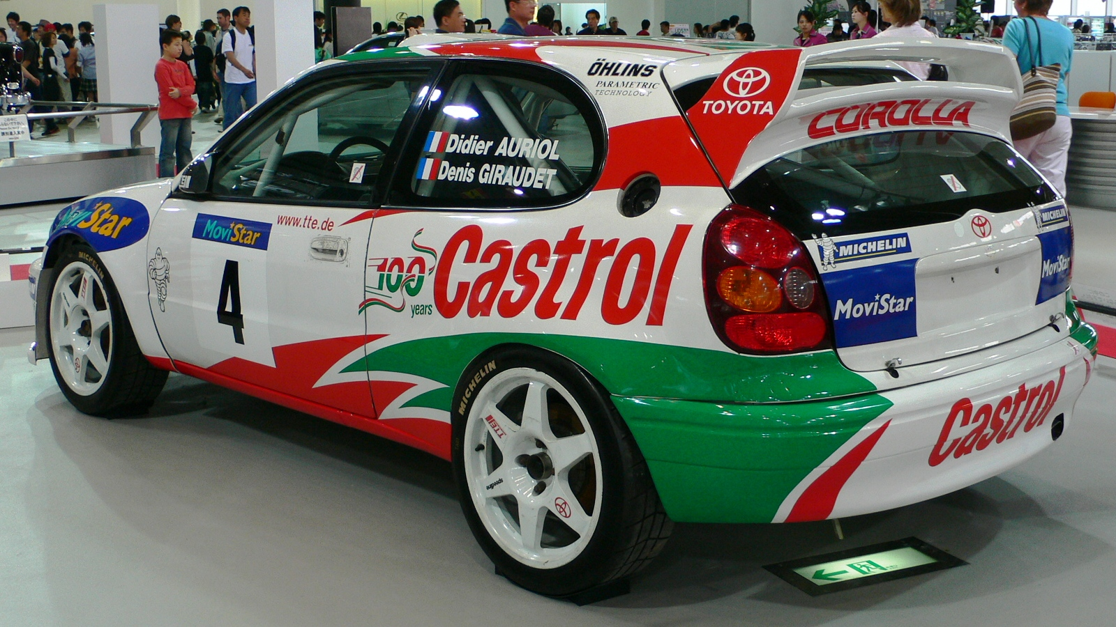 Toyota_Corolla(WRC) photographed in MEGAWEB.